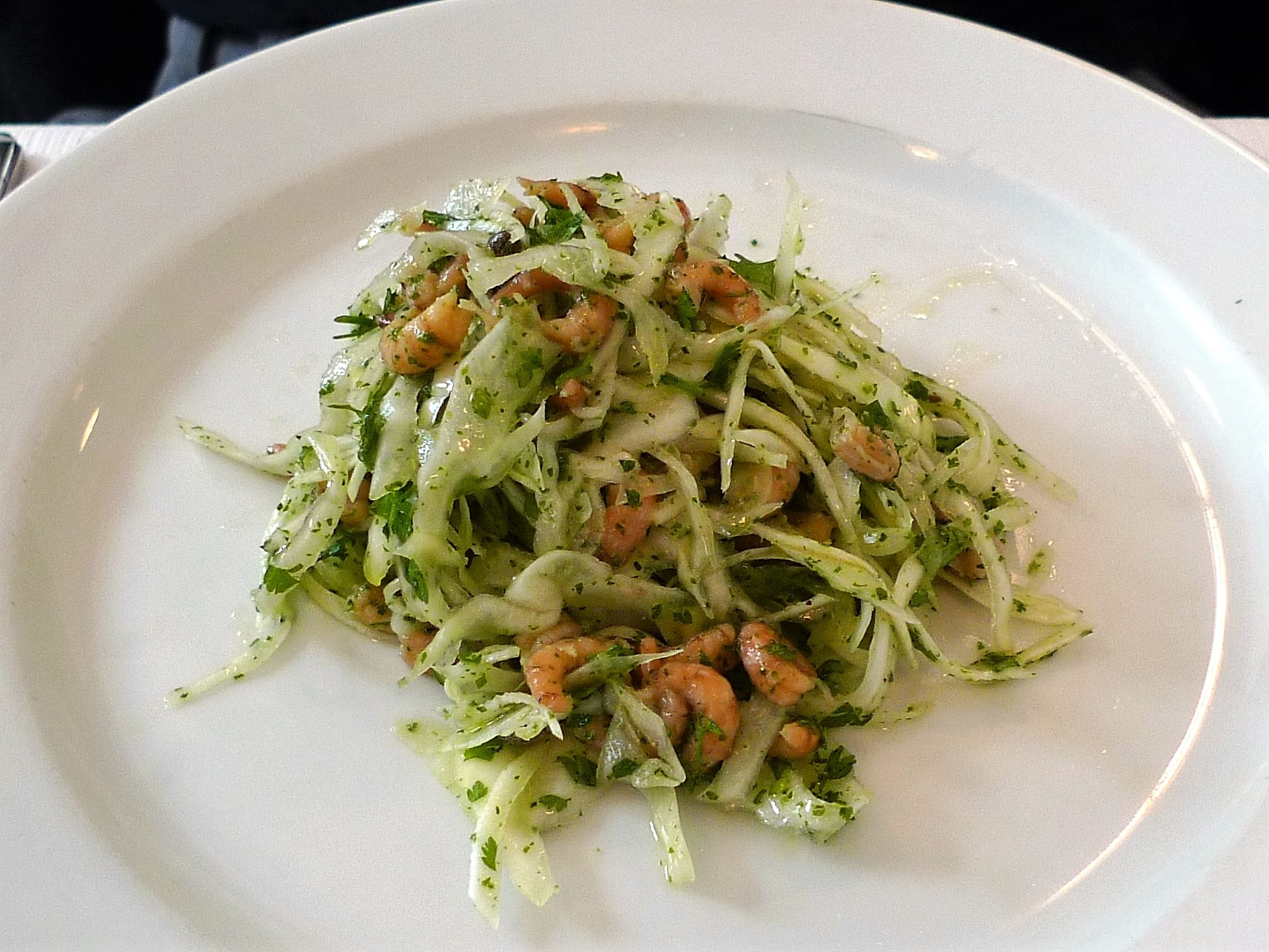 The brown shrimp and white cabbage starter. My friend helpfully points it out. At St John Restaurant, St John Street.